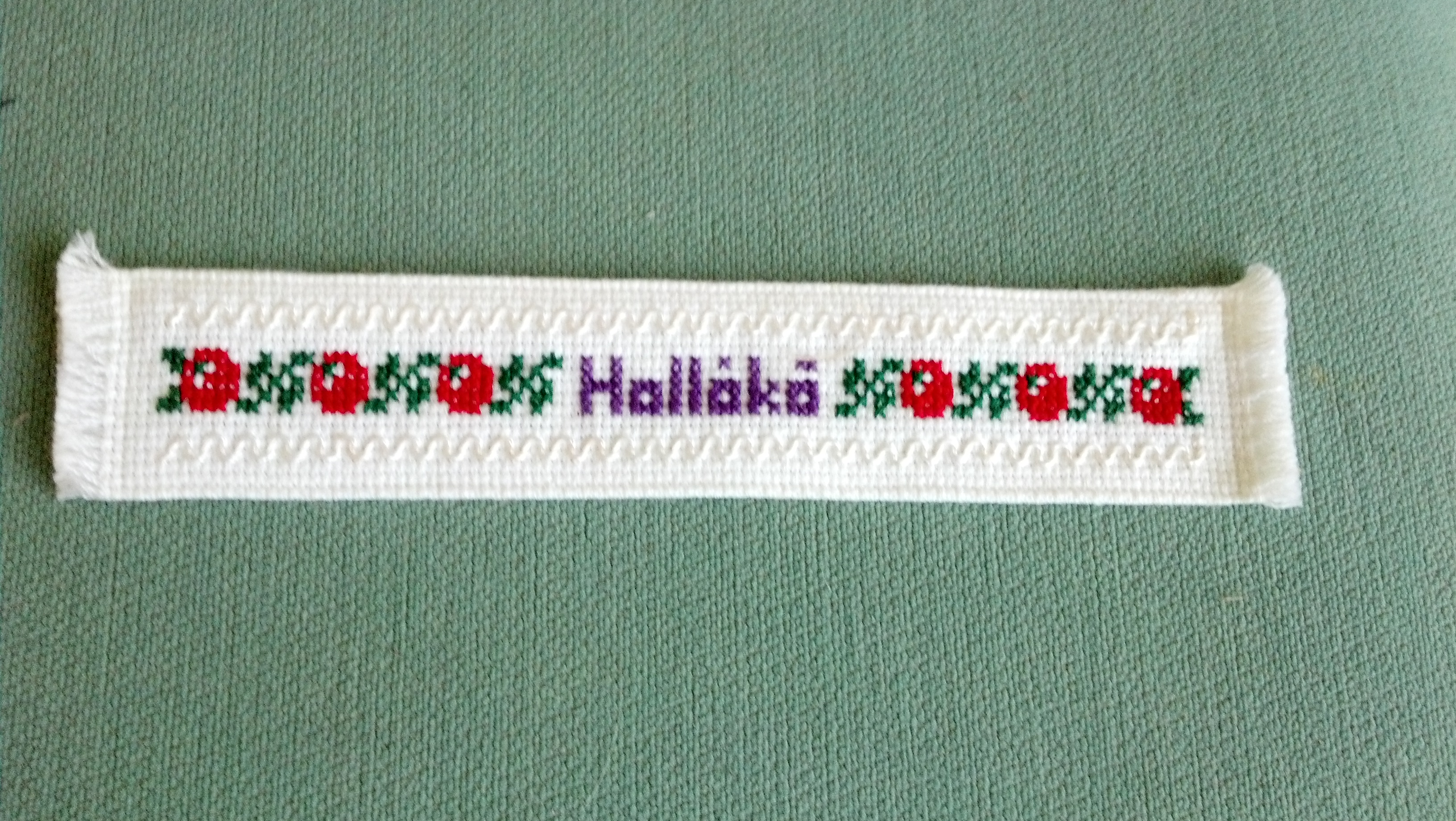 bookmark - hand craft frop Holloko Hungary